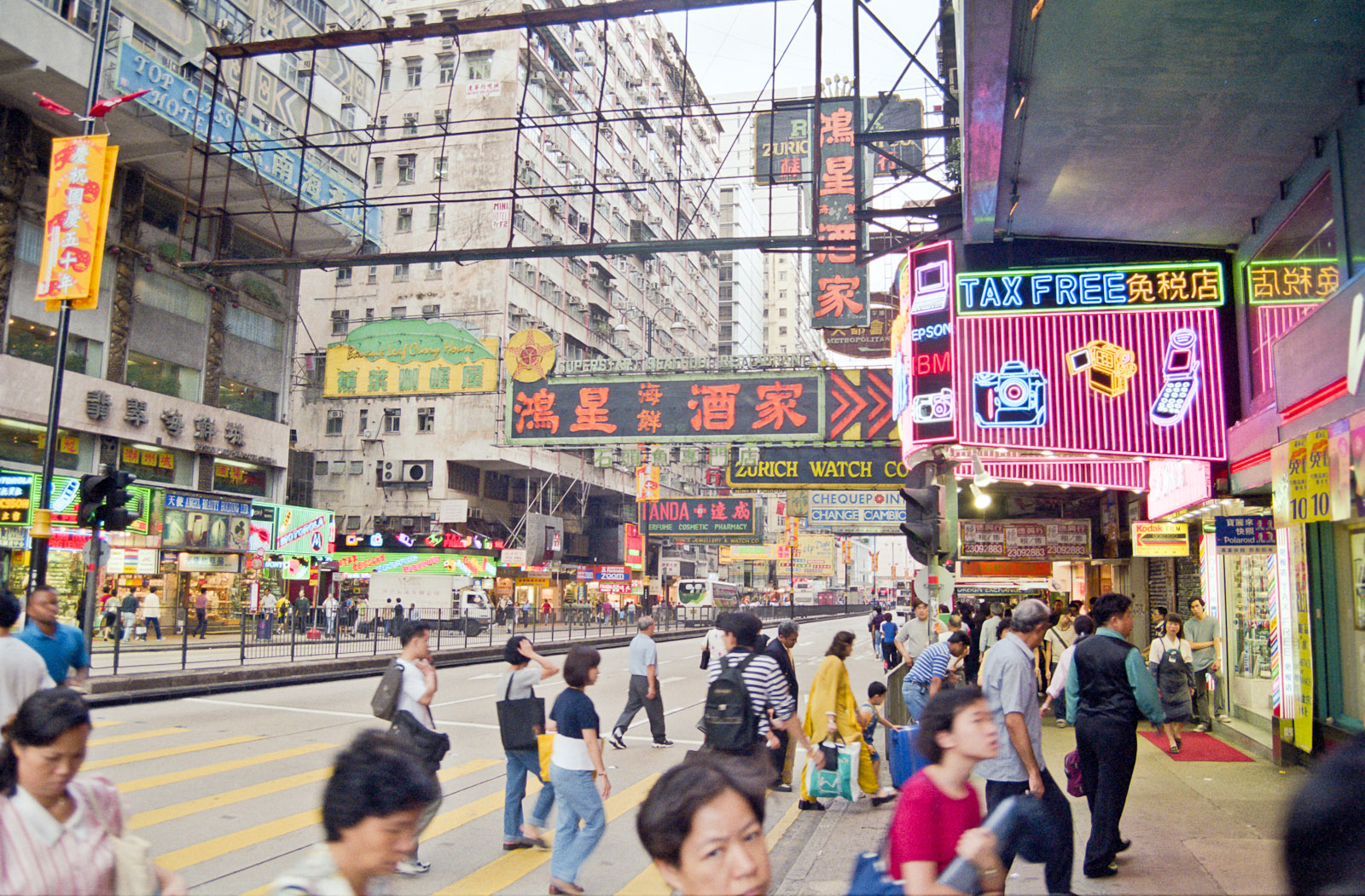 Nathan Street